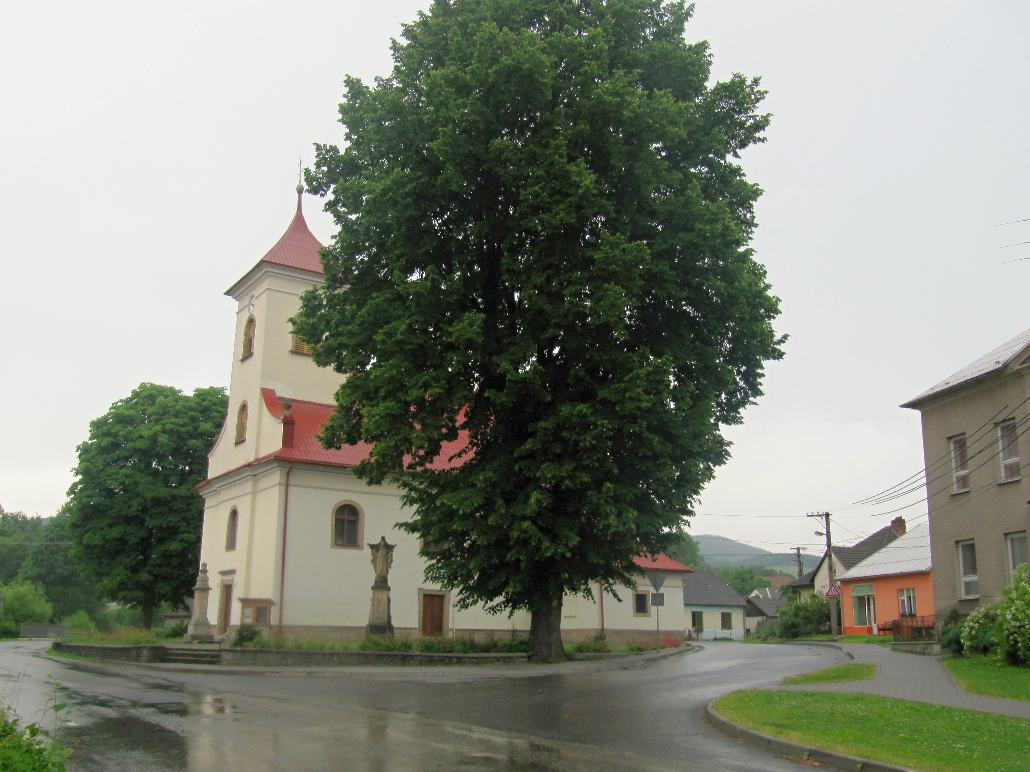 Kašava in Zlín District, Czech Republic. St. Catherine-church and crossroad. This photograph was taken within the scope of the third year of the 'Czech Municipalities Photographs' grant.